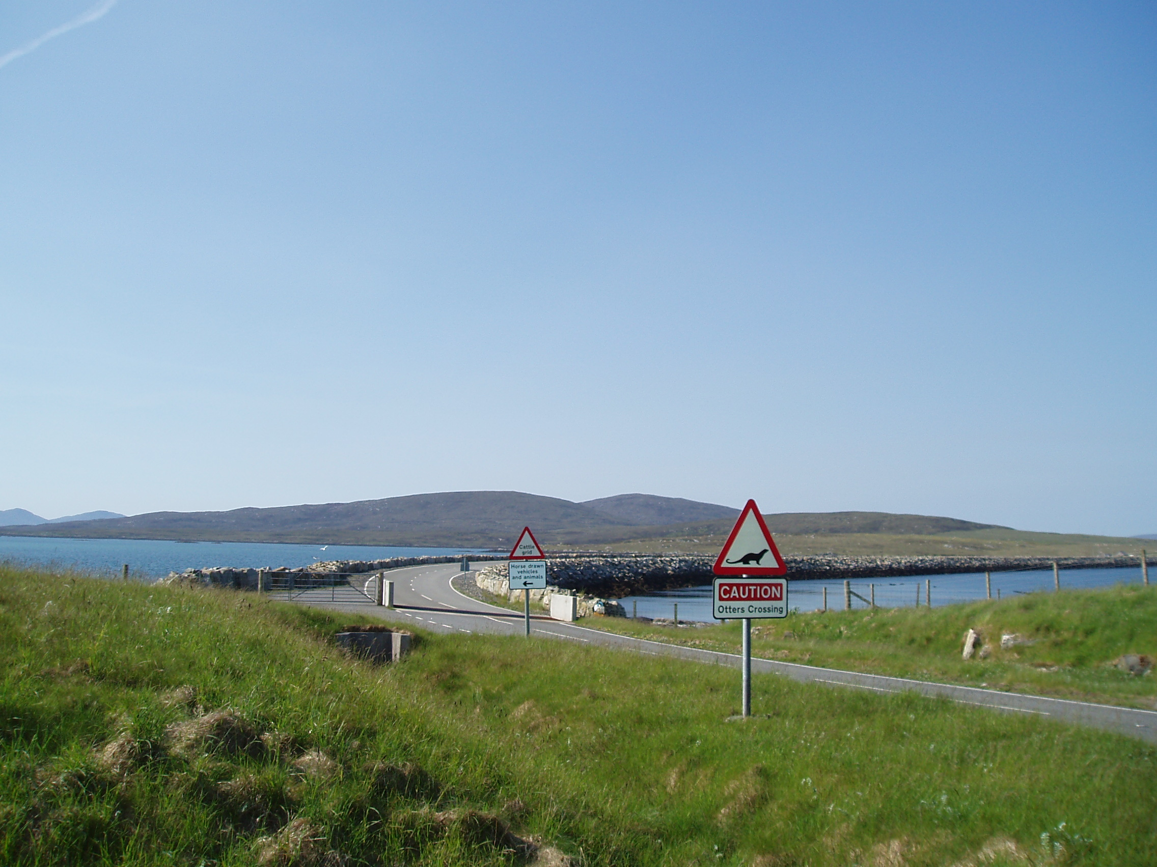 Isle of Berneray, Outer Hebrides. Causeway, cattle grid, otter (Lutra lutra) warning sign.